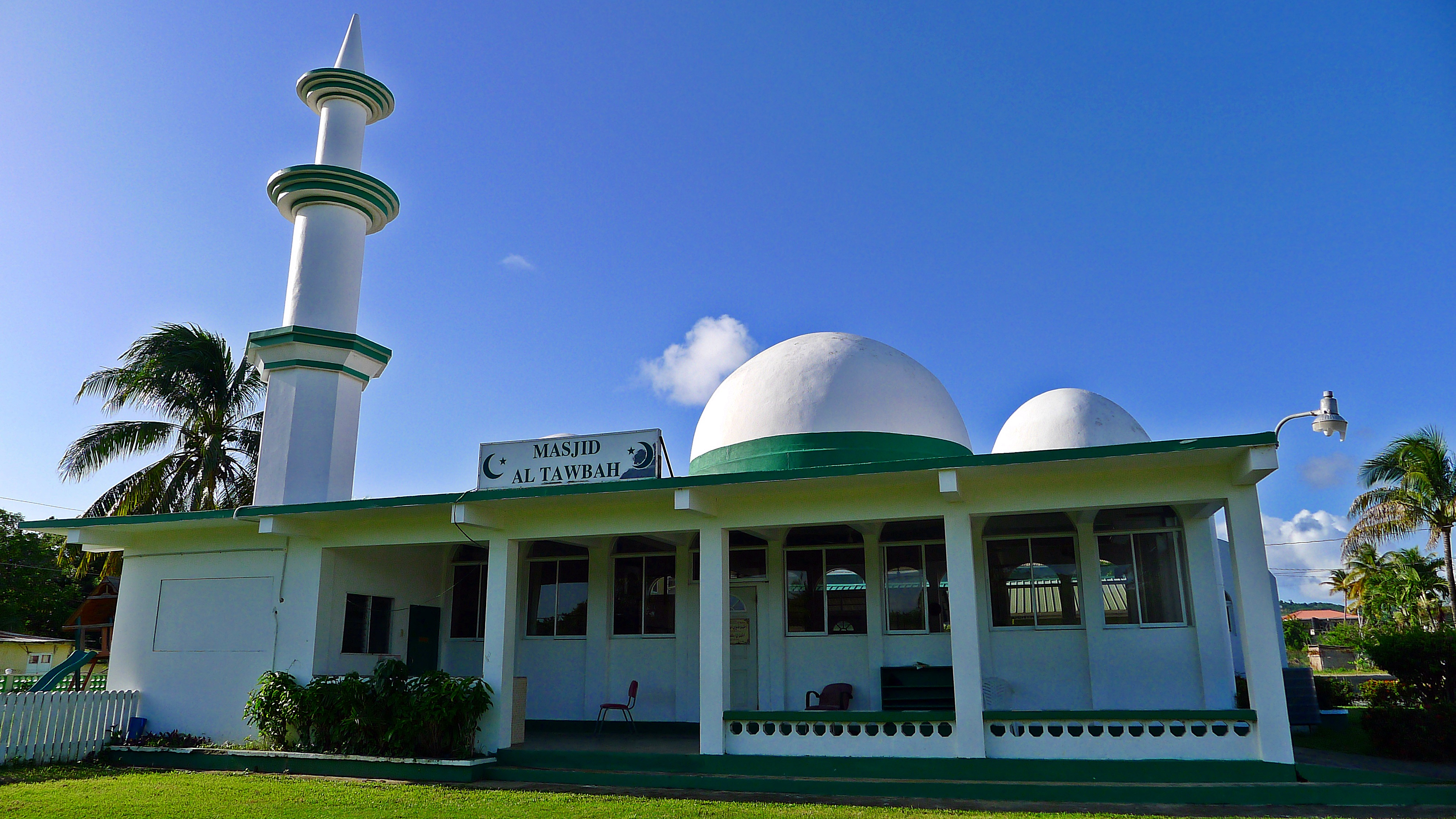 Islam was brought to the Caribbean by indentured workers from British India back in the 19th century. Many of the present day Muslims pray in small village mosques (masjids) like this one.